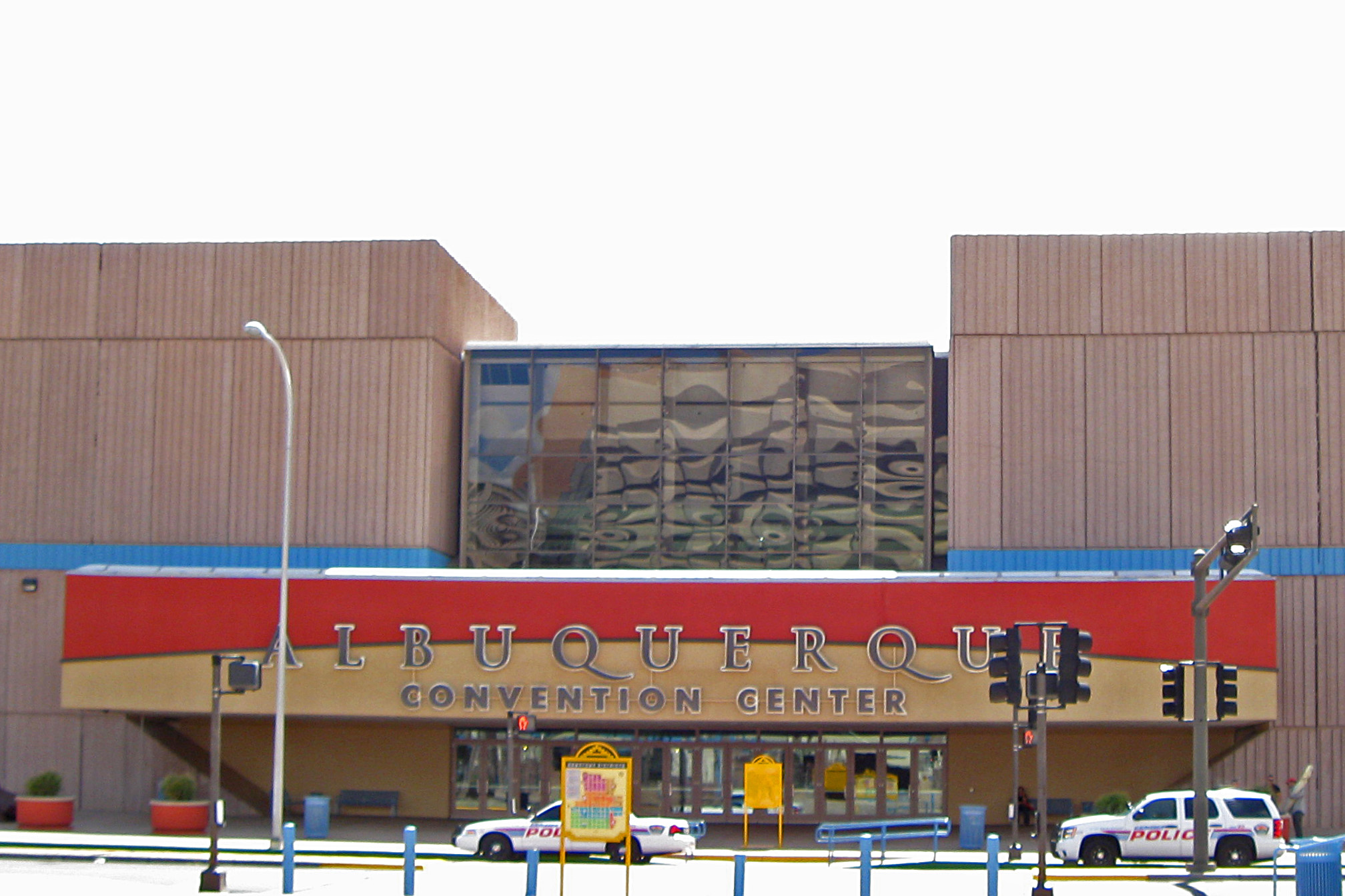 Albuquerque (New Mexico) Convention Center, located at 401 2nd Street NW.